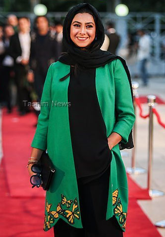 Azadeh Samadi, Iranian actress at 16th Hafez Awards.